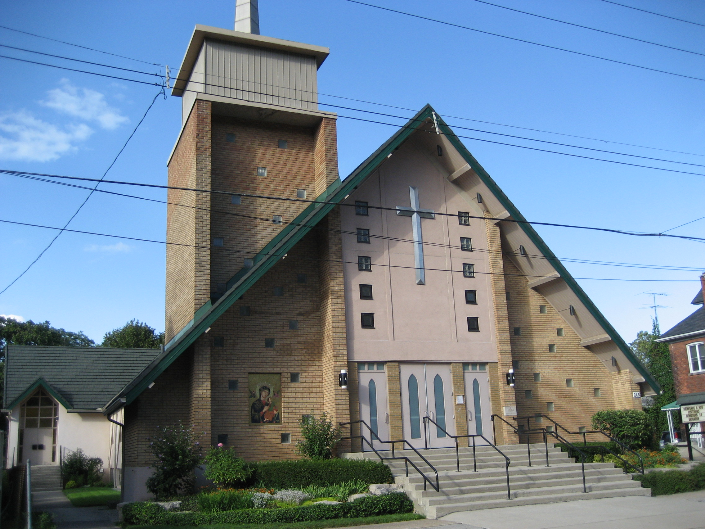 Notre Dame Church 243 Cumberland Ave Hamilton, Canada.